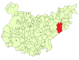 Cabeza del Buey, spanish municipality in the province of Badajoz, Extremadura.